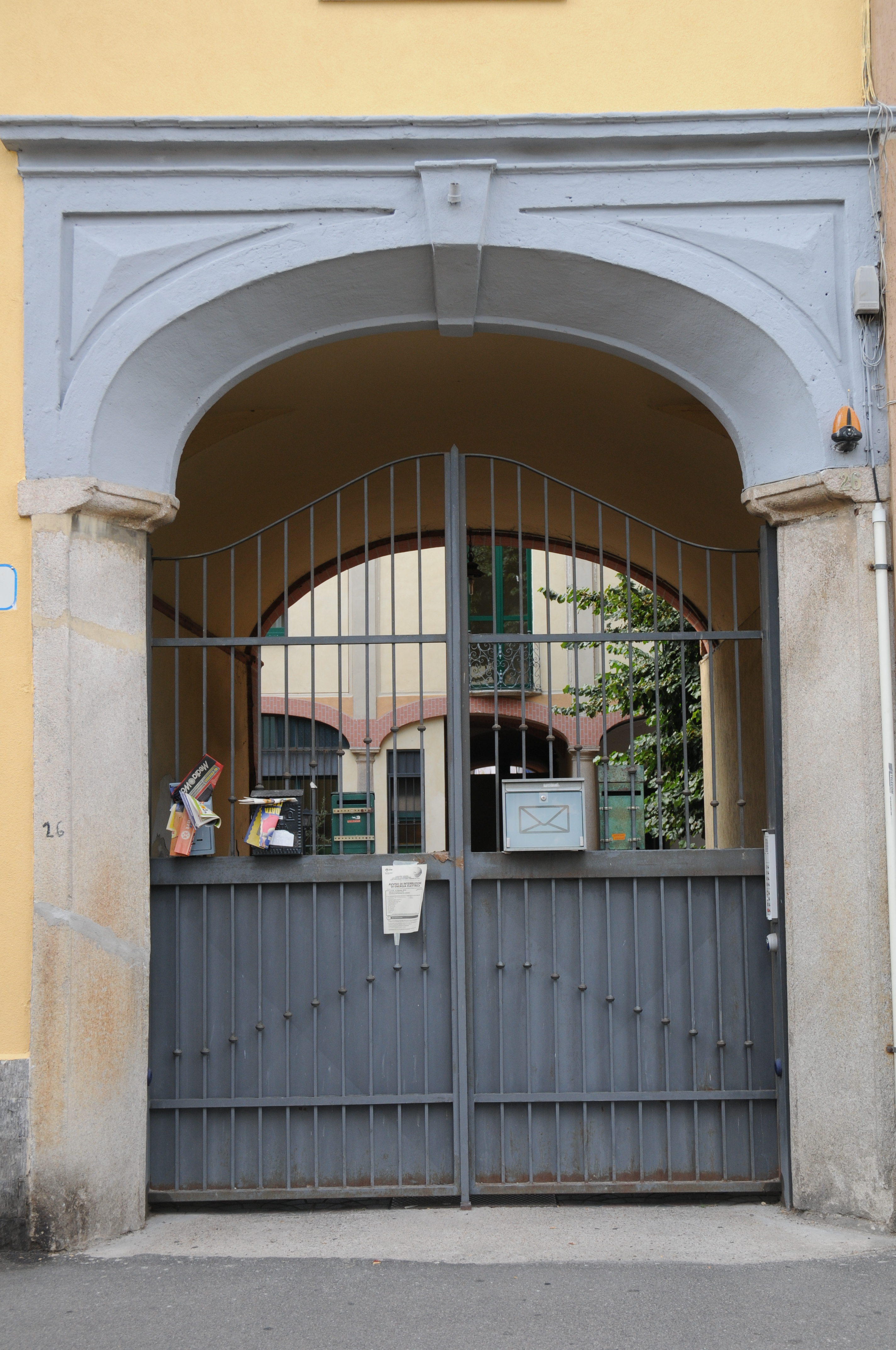 Lucini Arborio Mella building in San Giorgio su Legnano (Italy)